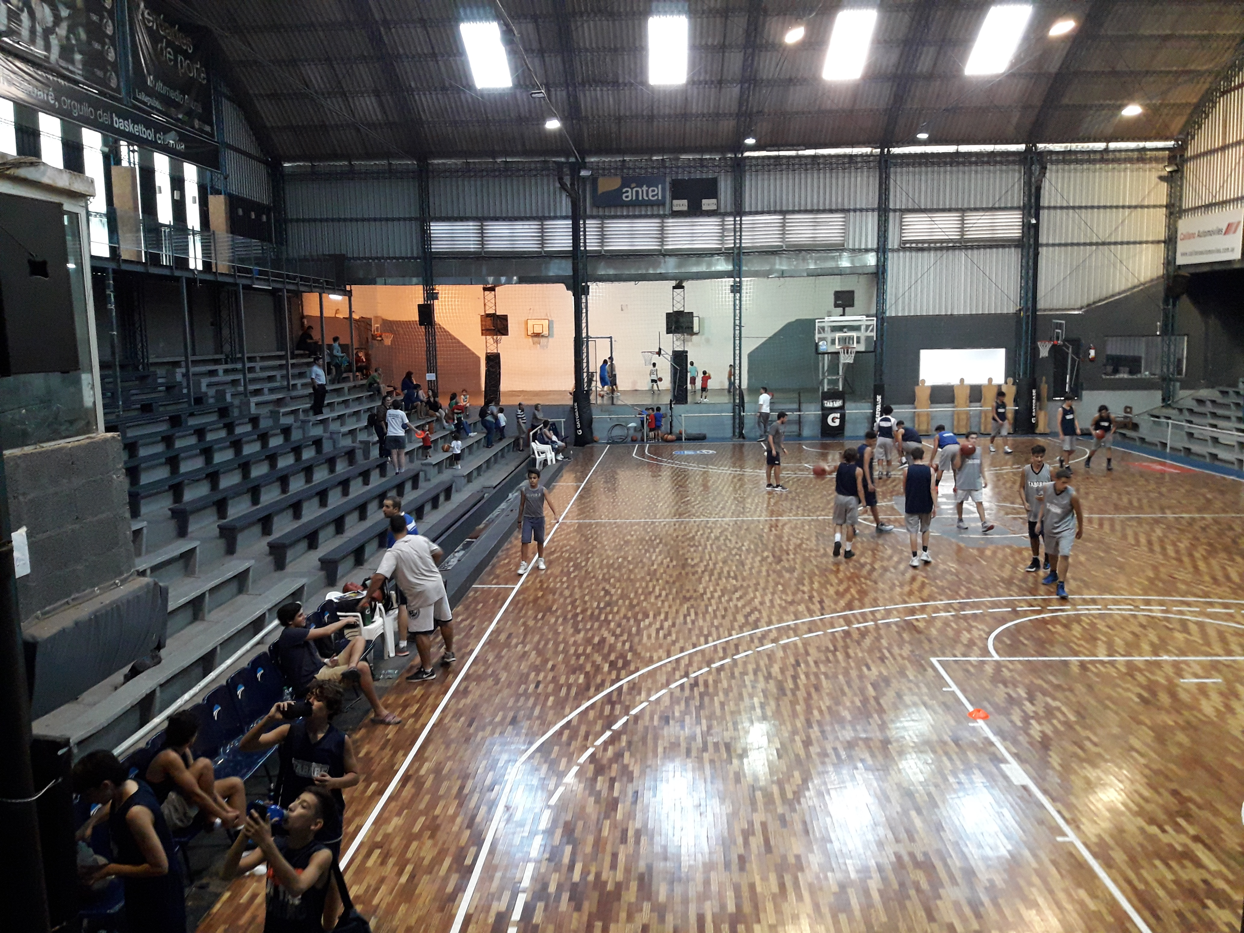 Estadio de Tabaré